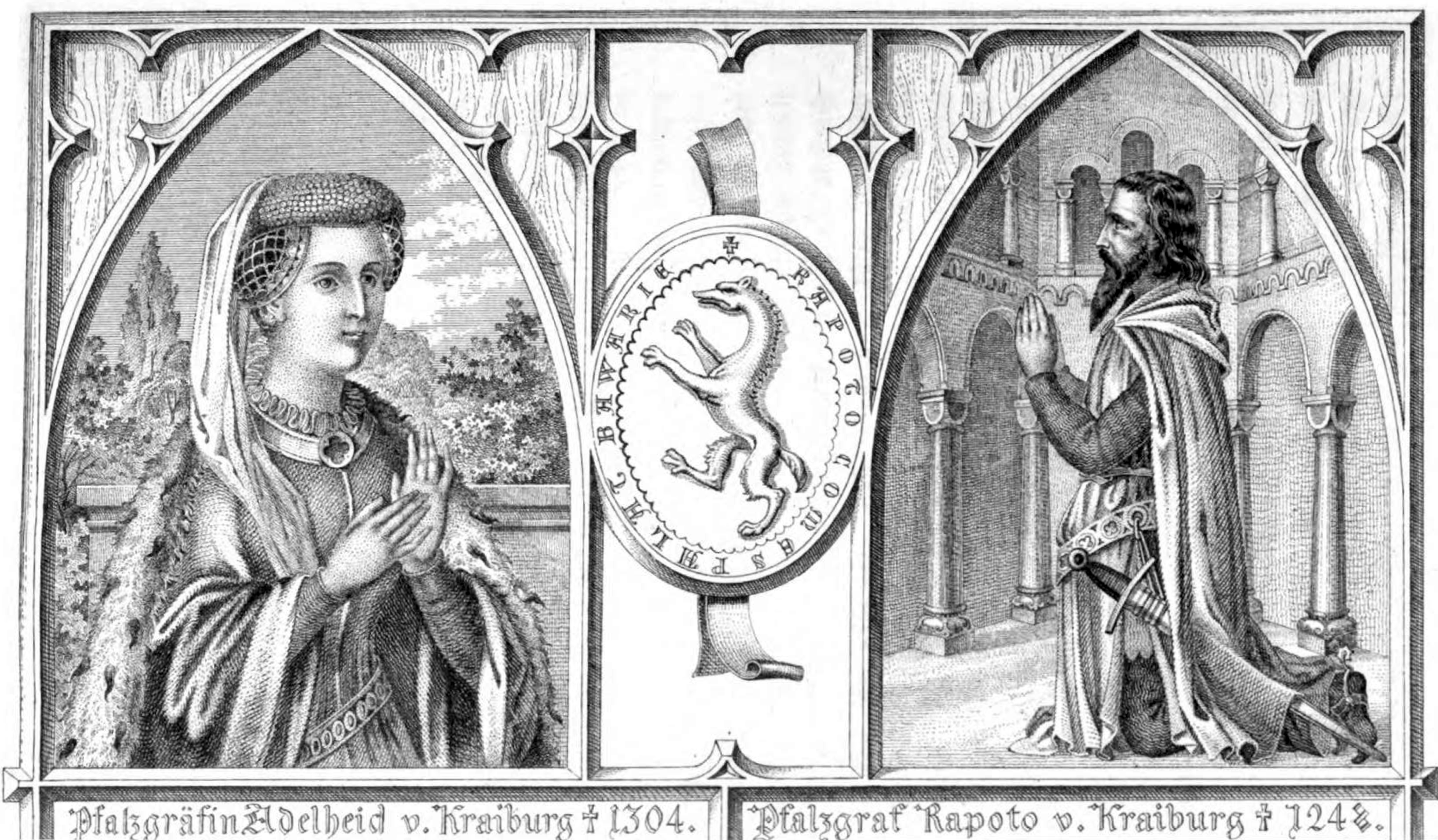 Count Rapoto III of Kraiburg-Ortenburg and his wife Adelheid.